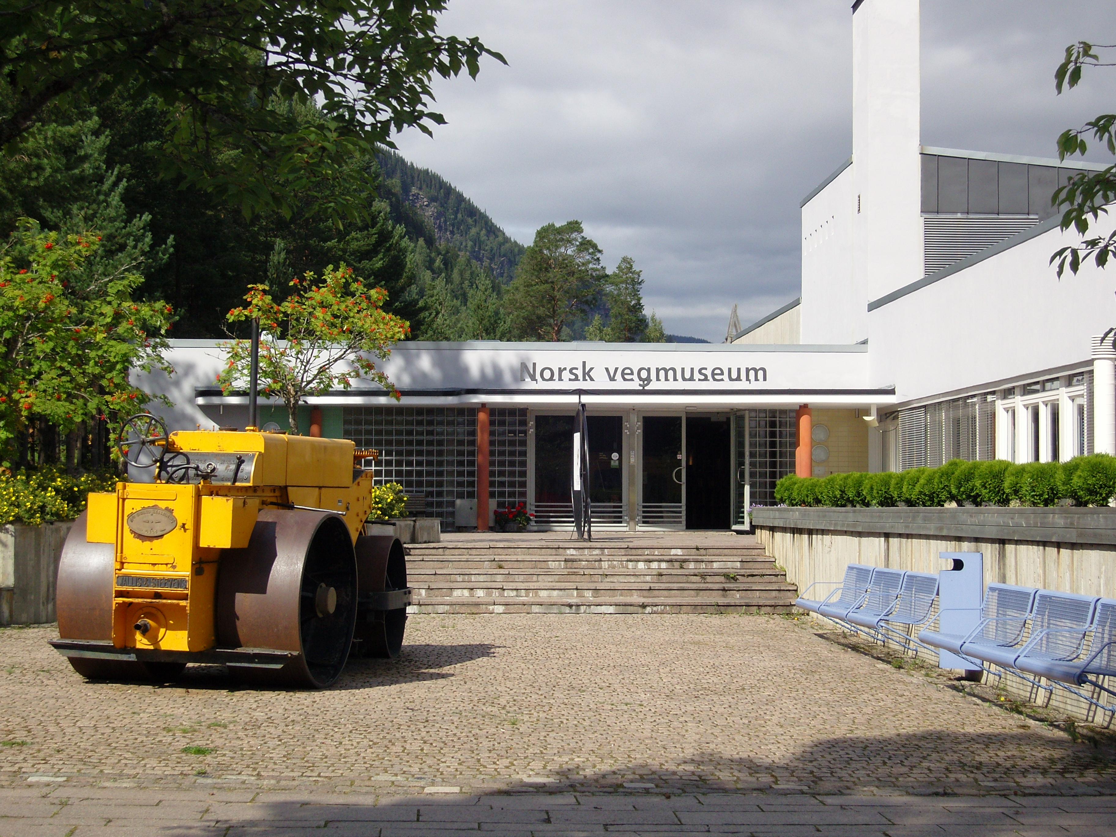 Norwegian Road Museum